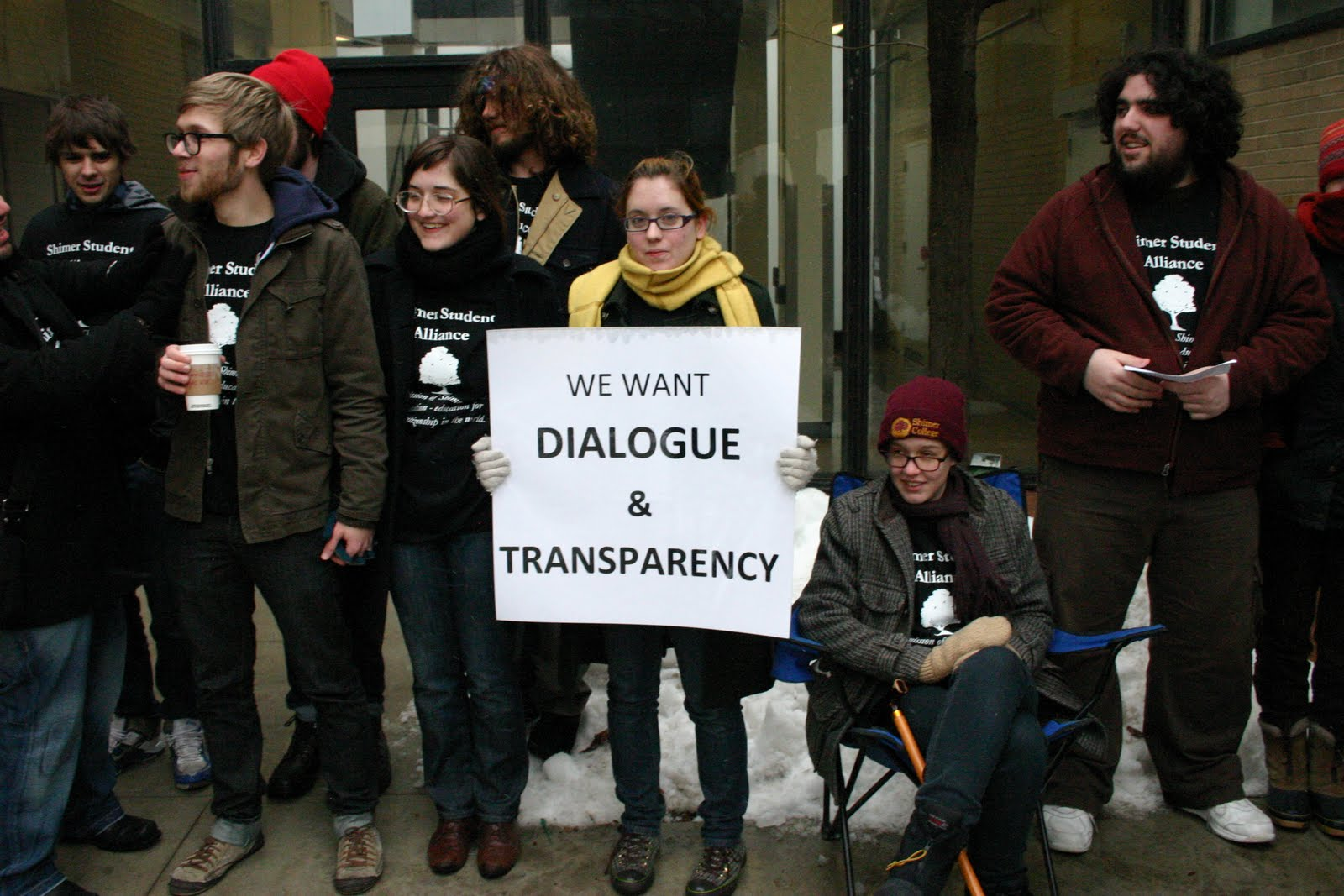 Students protest against an attempted change to the democratic governance structure of Shimer College at a Board of Trustees meeting in February 2010. One holds a sign reading "We want dialogue and transparency."